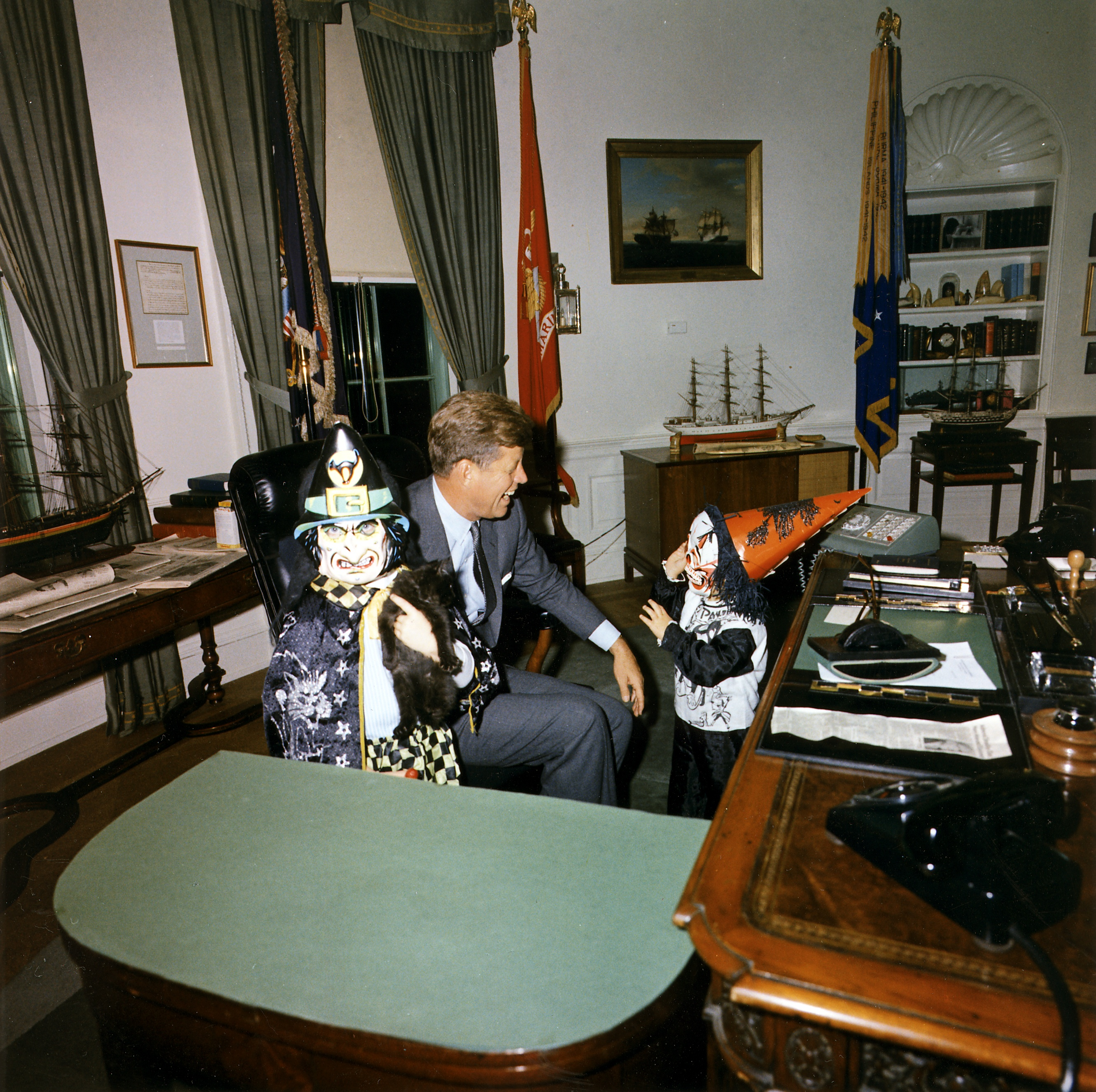 "Halloween visitors with the President, 31 October 1963" US President John F. Kennedy with his two children in Halloween costumes. President Kennedy, John F. Kennedy Jr., Caroline Kennedy. White House, Oval Office.